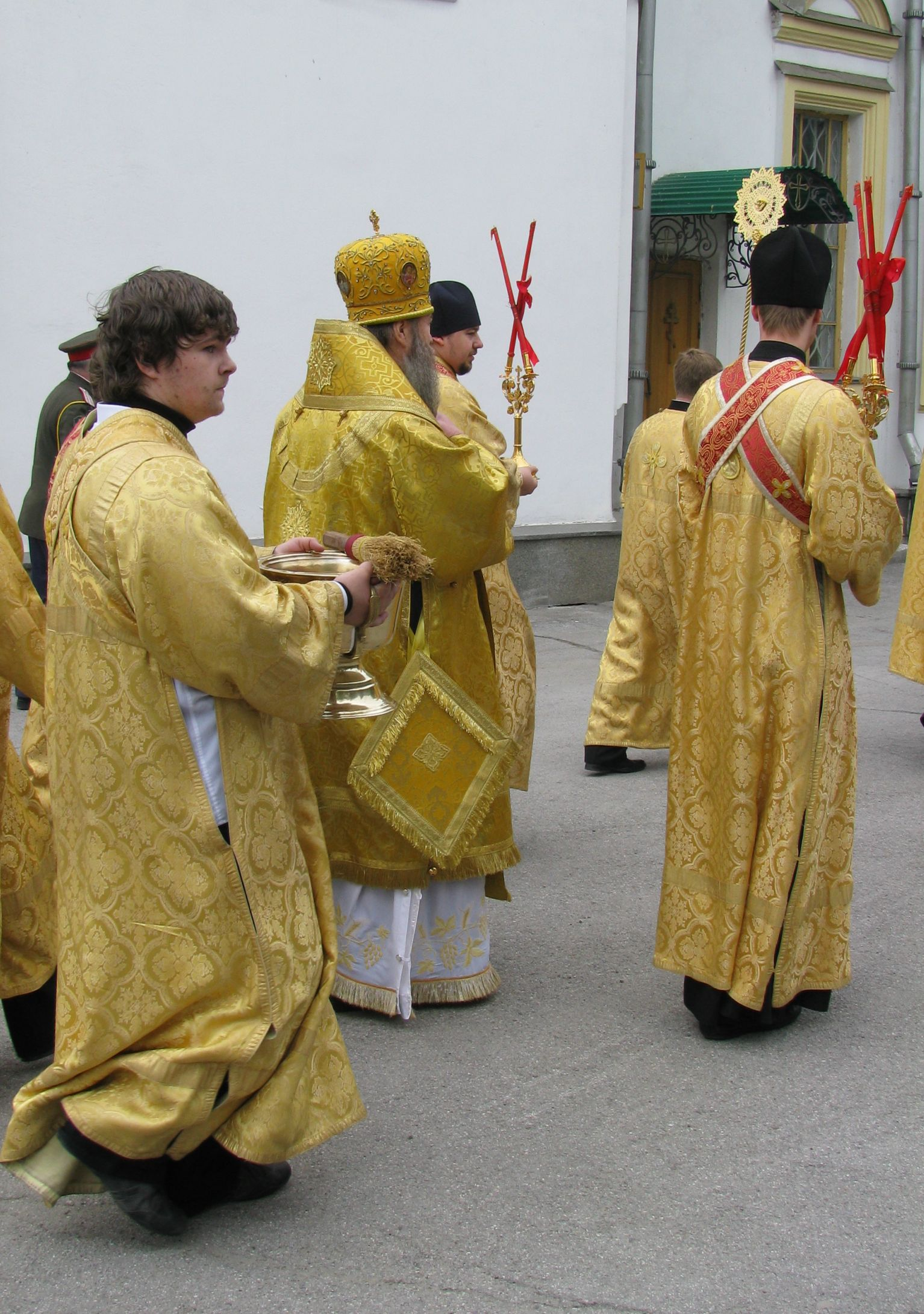 Cross Procession in Novosibirsk